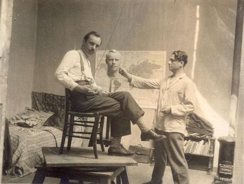 Bulgarian scientist Asen Zlatarov (1885-1936) sitting for a sculpture portrayal in Paris, June 1926